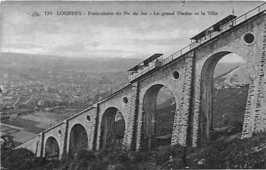 Funiculaire du Pic du Jer.